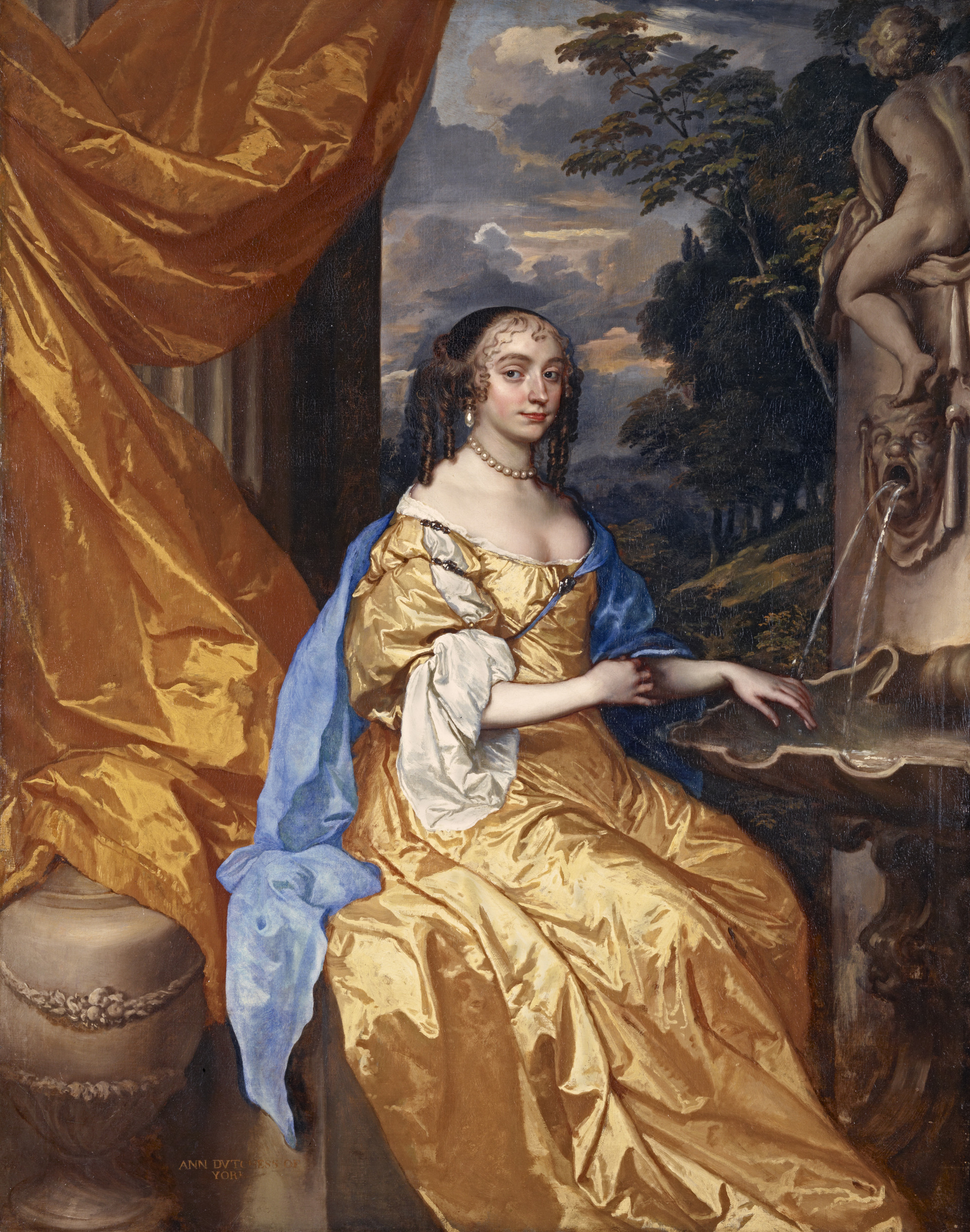 Anne Hyde, Duchess of York